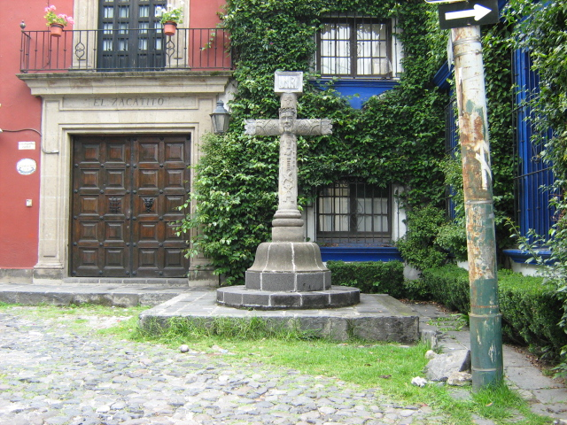 San Angel Mexico City.